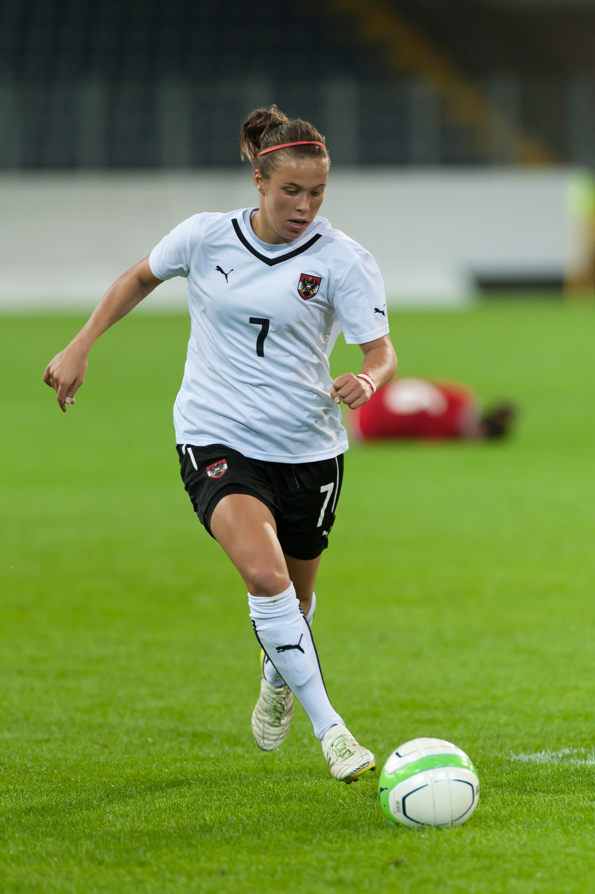 FIFA Women's World Cup 2015: Qualifying Round St. Pölten, 13.09.2014 Nicole Billa